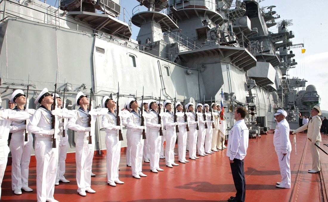 Dimitry Medwedev on board of the nuclear-powered cruiser Peter the Great (Pyotr Velikiy).